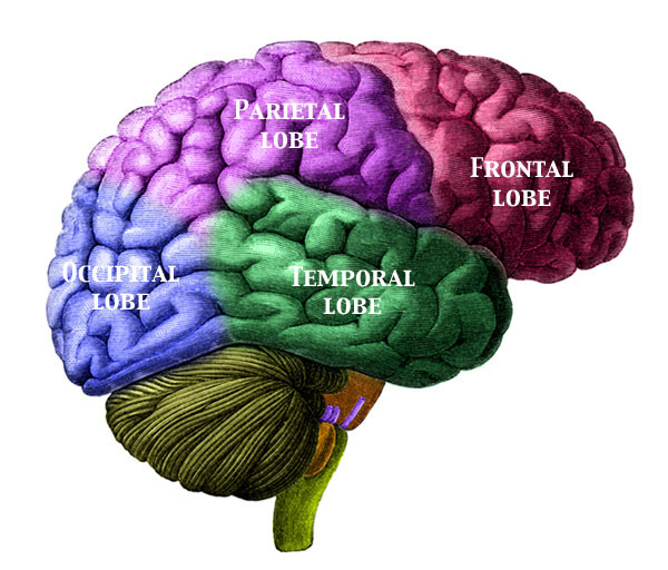 Brain viewed from the right side showing the 4 major cerebral lobes. This is a digitally enhanced version of an illustration from Manuel de L'anatomiste, by Charles Morel and Mathias Duval, published in 1883